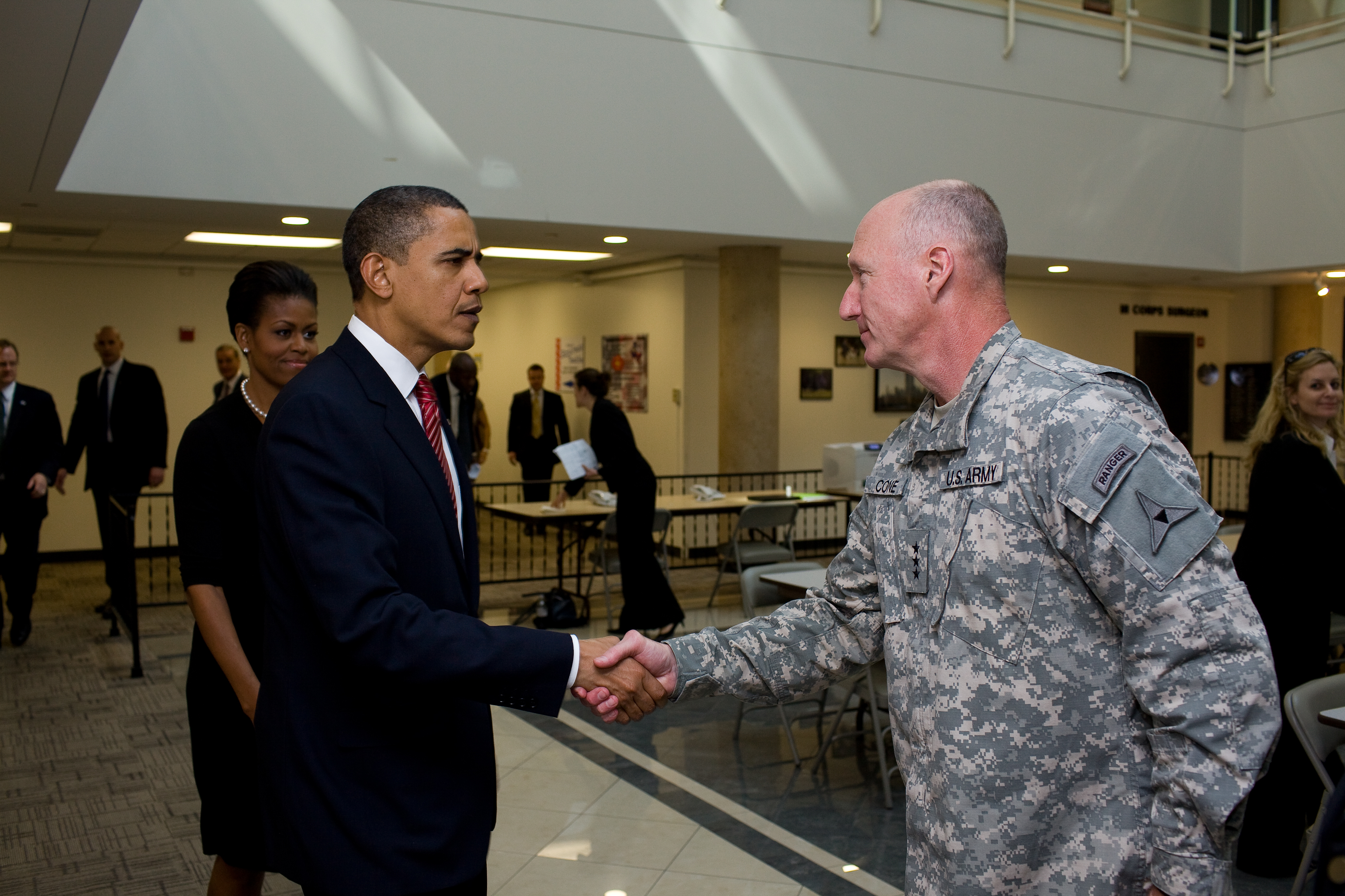 President Barack Obama and First Lady Michelle Obama meets with LTg and Mrs. Cone, as a part of their visit with families of those killed and the families of those injured, at Fort Hood, Texas on Nov. 10, 2009.